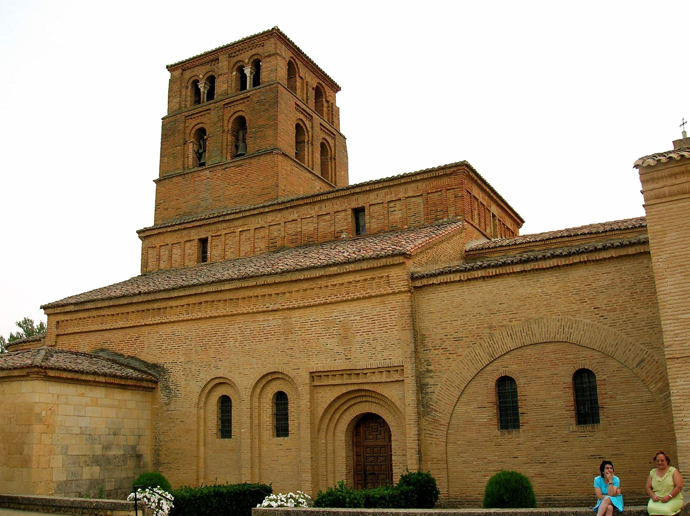 Iglesia del Monasterio de San Pedro de la Dueñas, en San Pedro de las Dueñas (León, España)